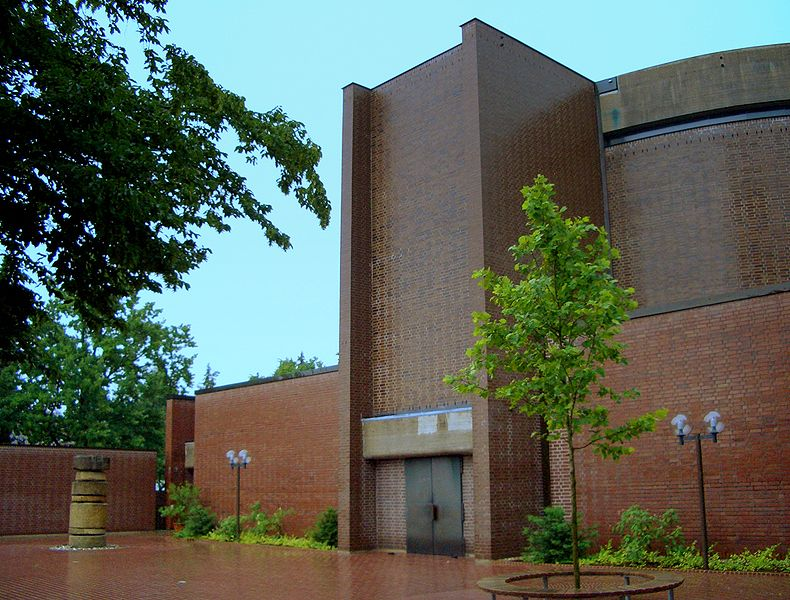 St. Matthias in Munich